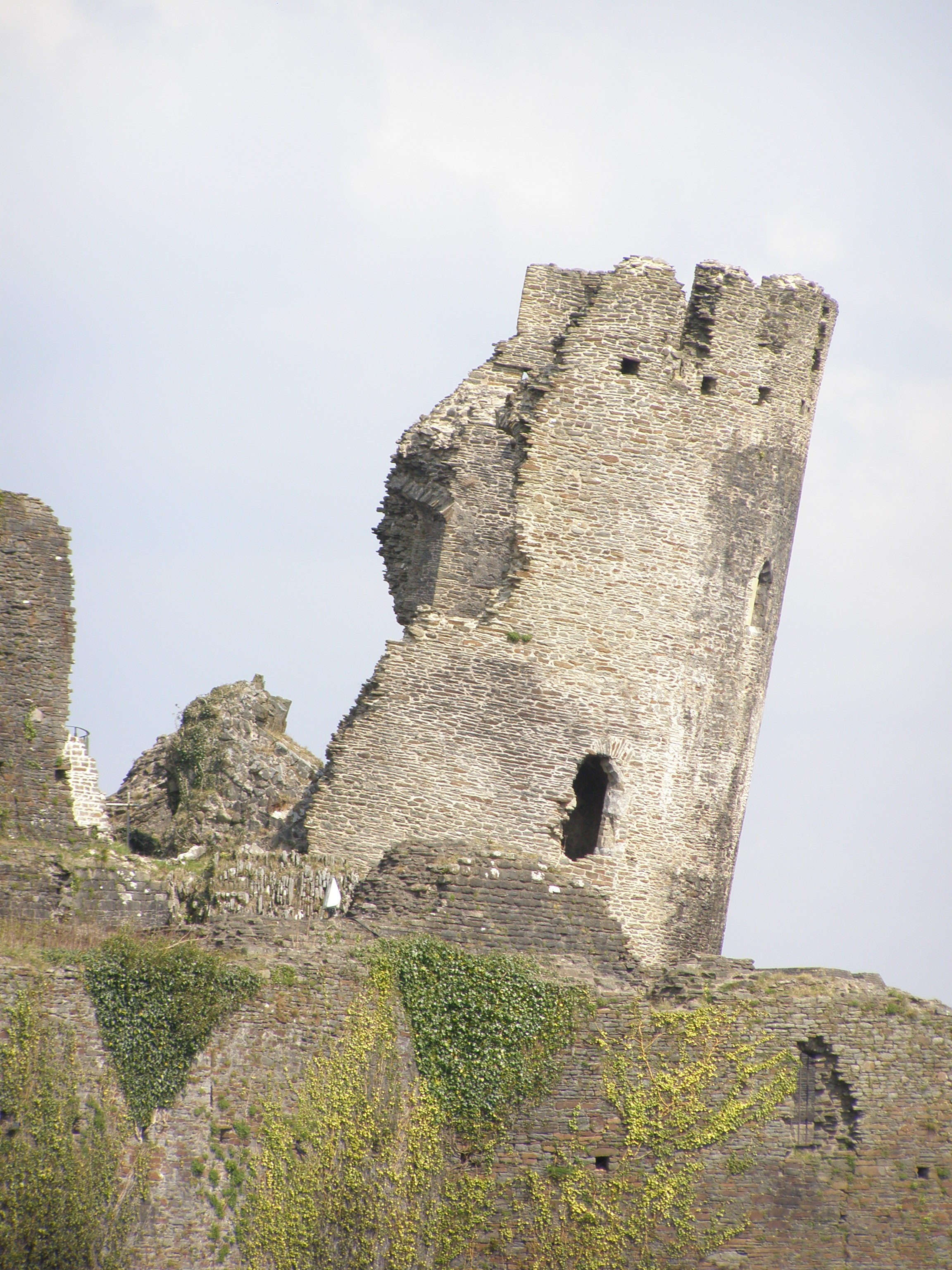 Hanging tower of Caerphilly castle, Wales